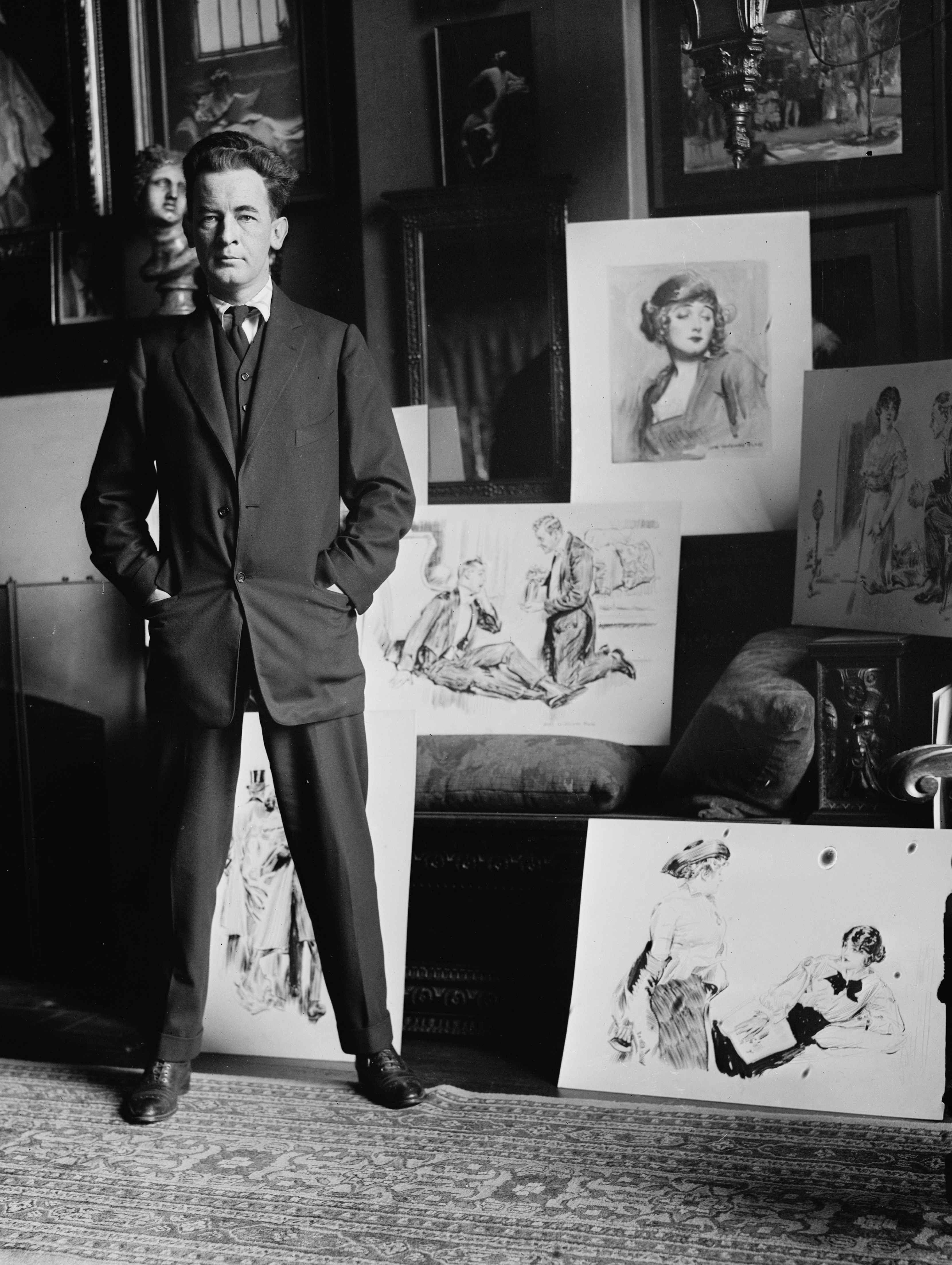 American artist James Montgomery Flagg (1877-1960) with some of his artwork